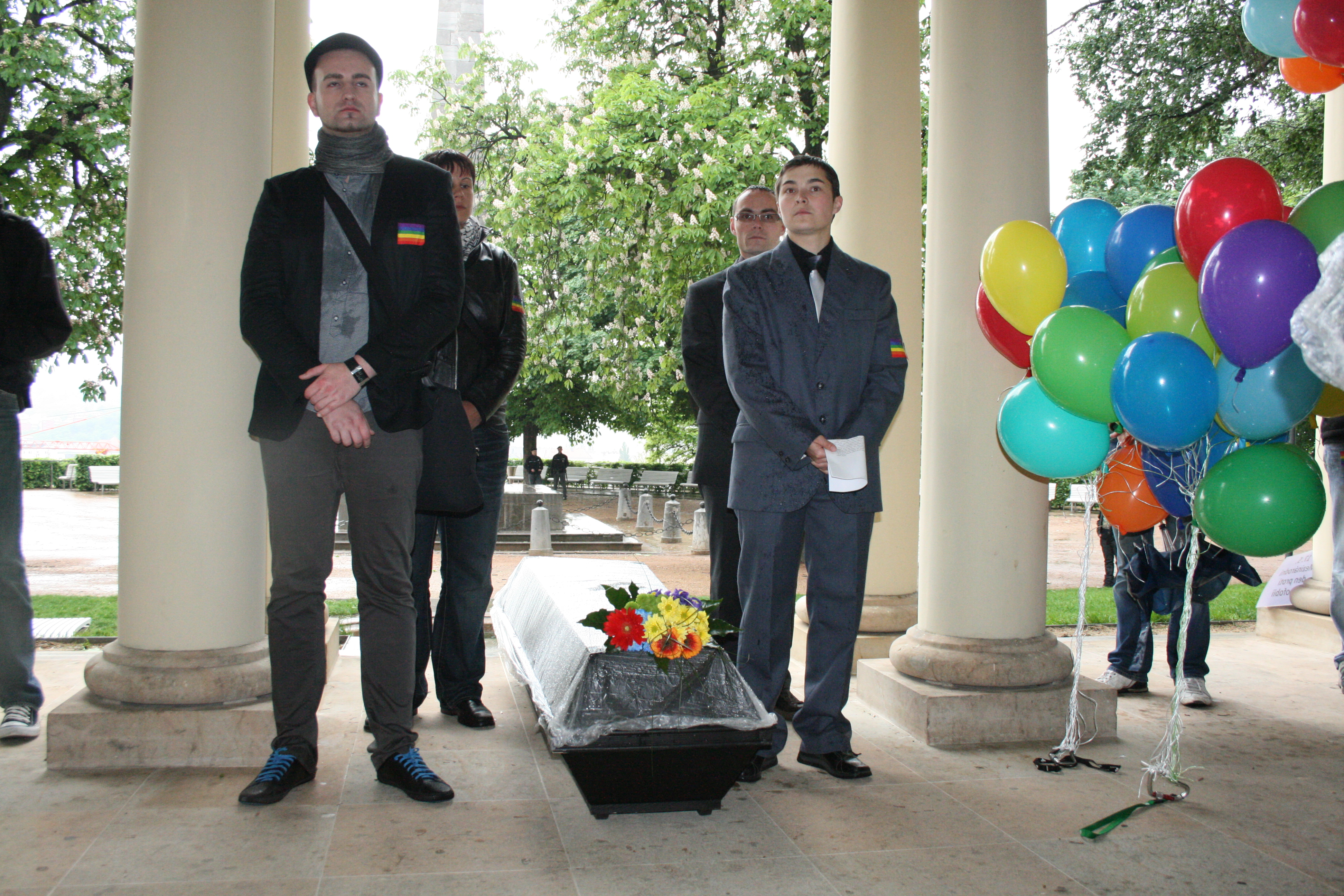 International Day Against Homophobia 2010 - burying homophobia in Brno, Czech Republic. Česky: Mezinárodní den proti homofobii 2010 - pohřeb homofobie v Brně. Symbolický smuteční obřad v altánu na Denisových sadech.